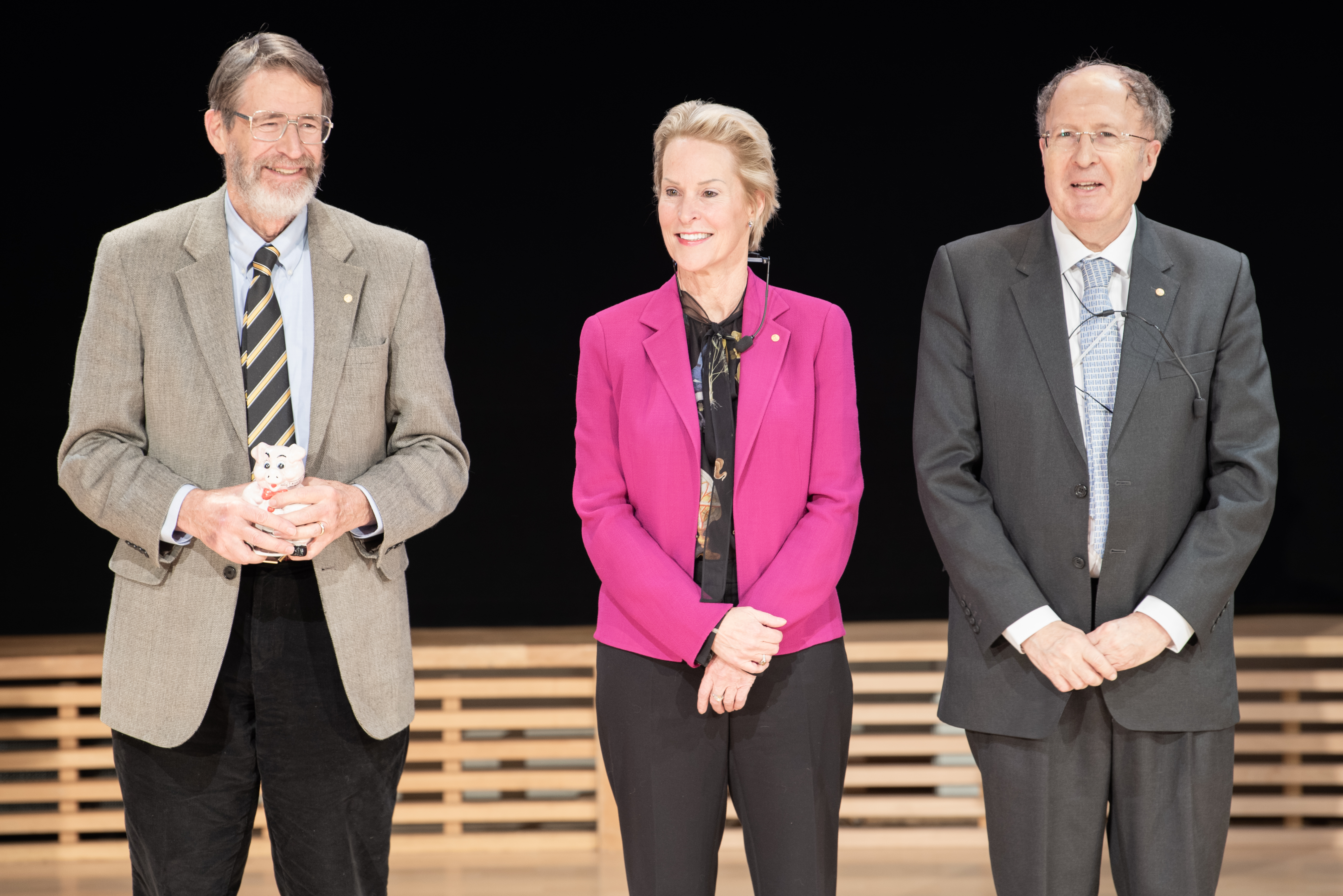 Nobel Laureates in Chemistry 2018, Stockholm, Sweden, December 2018